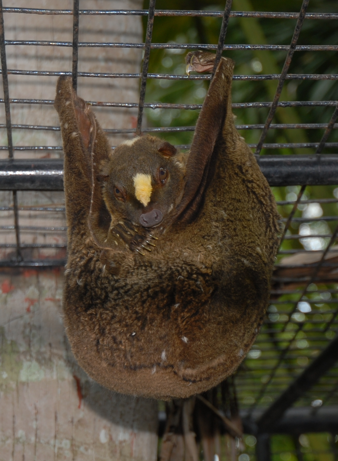 Philippine flying lemur taken at the python sanctuary in Santa Fe Alburquerque, Bohol.